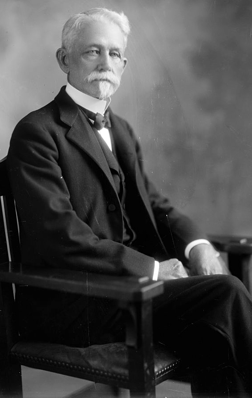 Walter Guion, US Senator from Louisiana